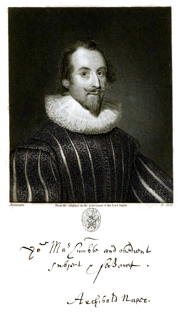 Sir Archibald Napier, 1st Lord Napier, 1576 - 1645. Extraordinary Lord of Session. See also this